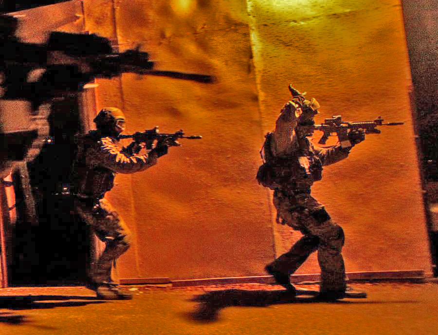 YAMAM - Israeli Counter-Terrorism unit - in a raid on Palestinian terrorists in Ramallah, March 2017